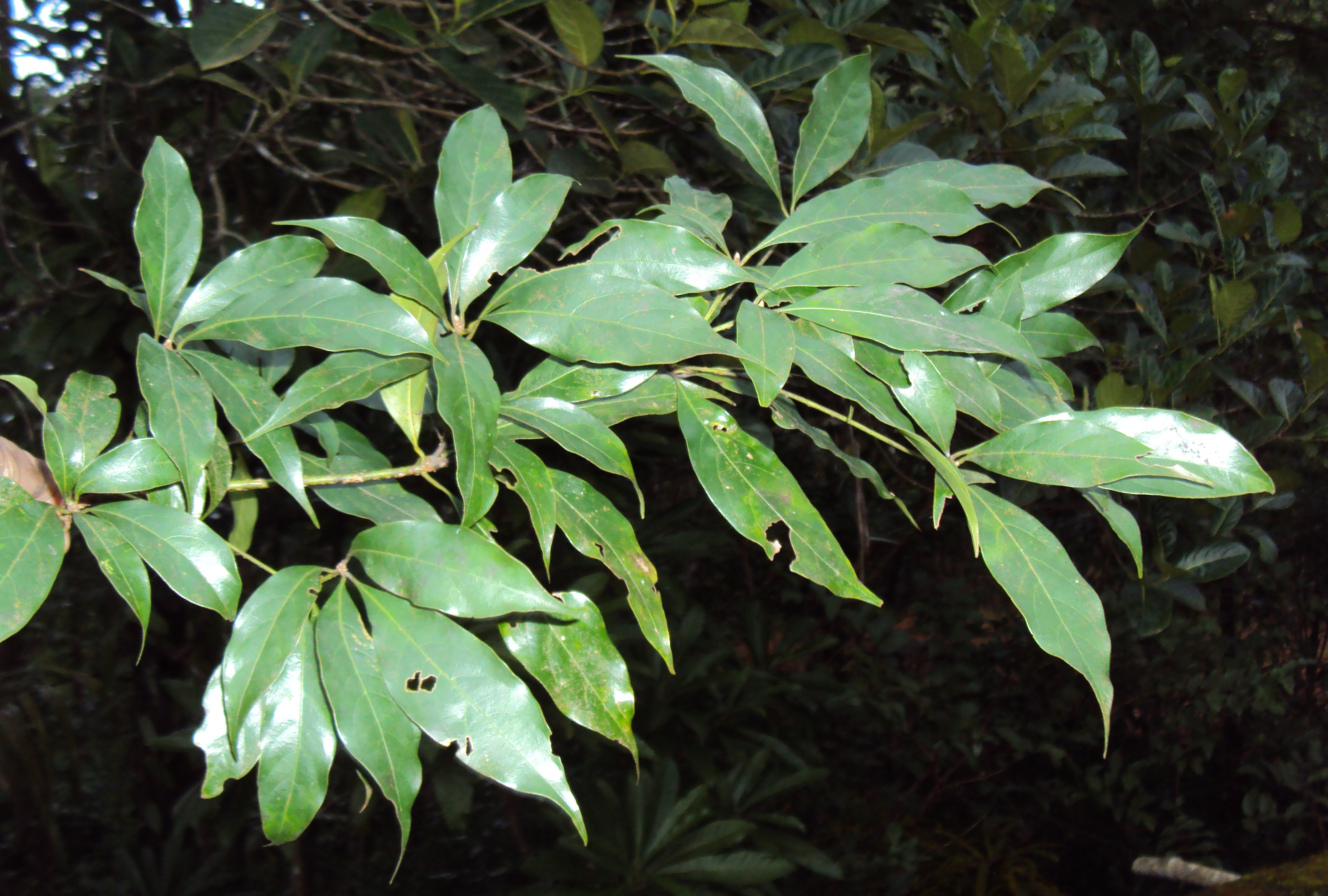 Phoebe lanceolata